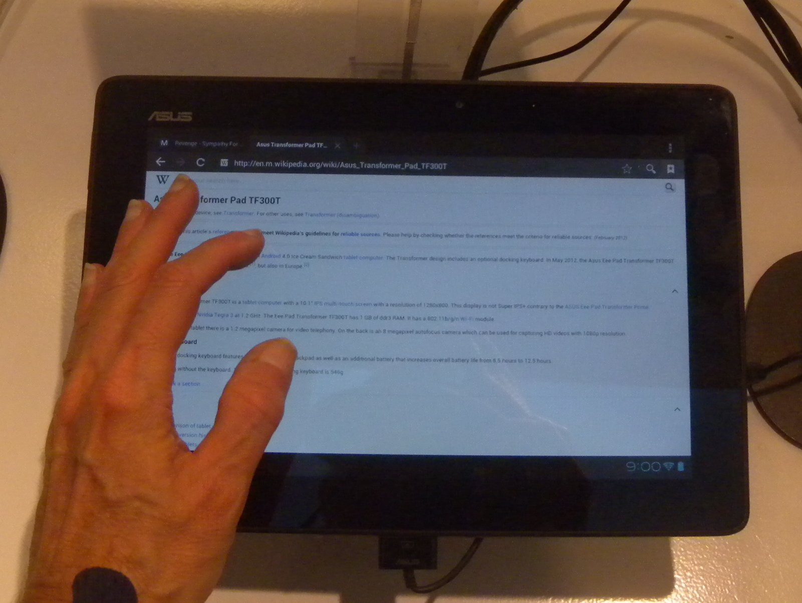 Tablet computer at B&H Photo.